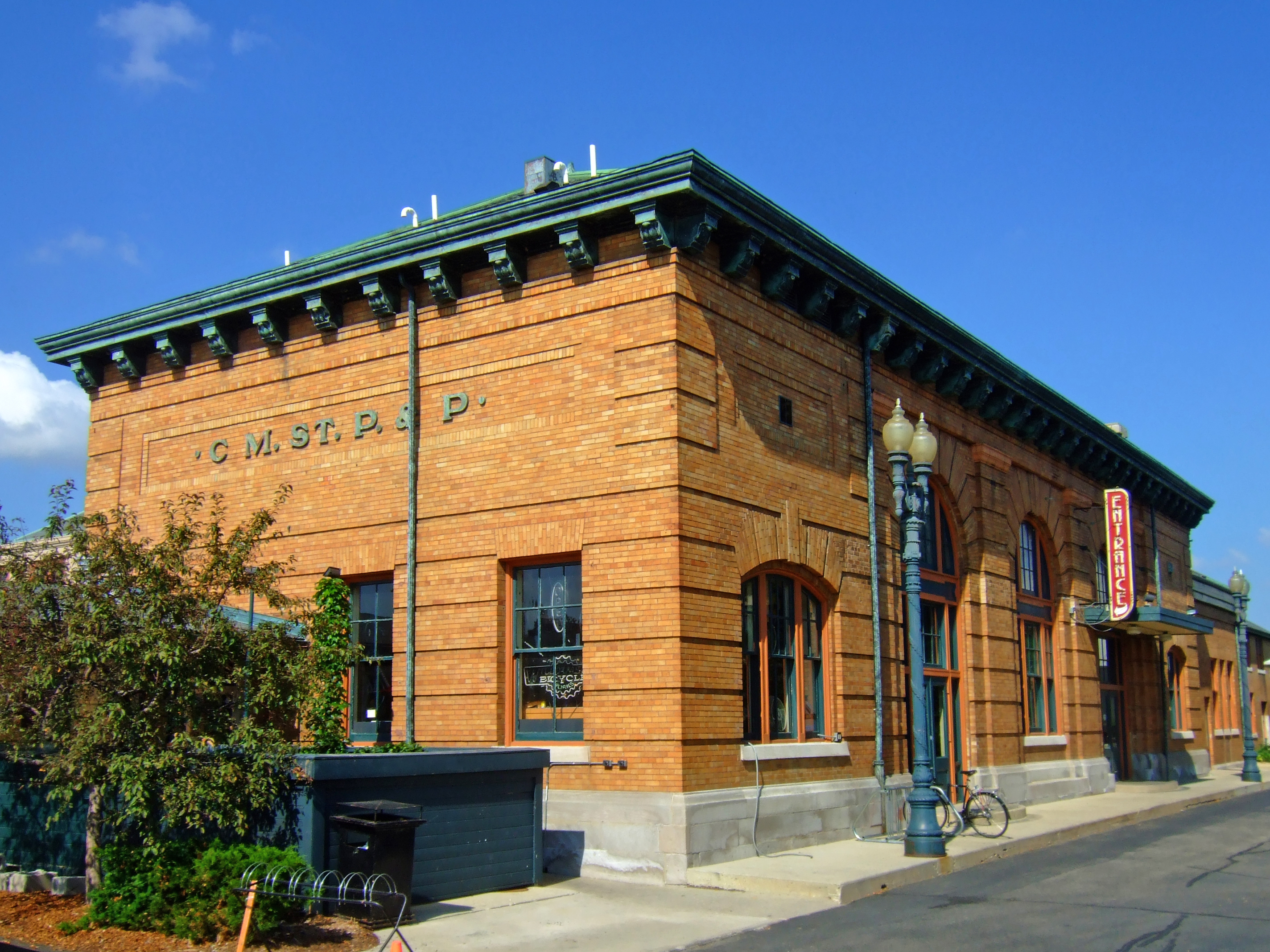 The West Madison Depot of the Chicago, Milwaukee, St. Paul, and Pacific Railway ("the Milwaukee Road"), located at 640 W. Washington Avenue in Madison, Wisconsin, was built in 1903 and added to the National Register of Historic Places in 1985.